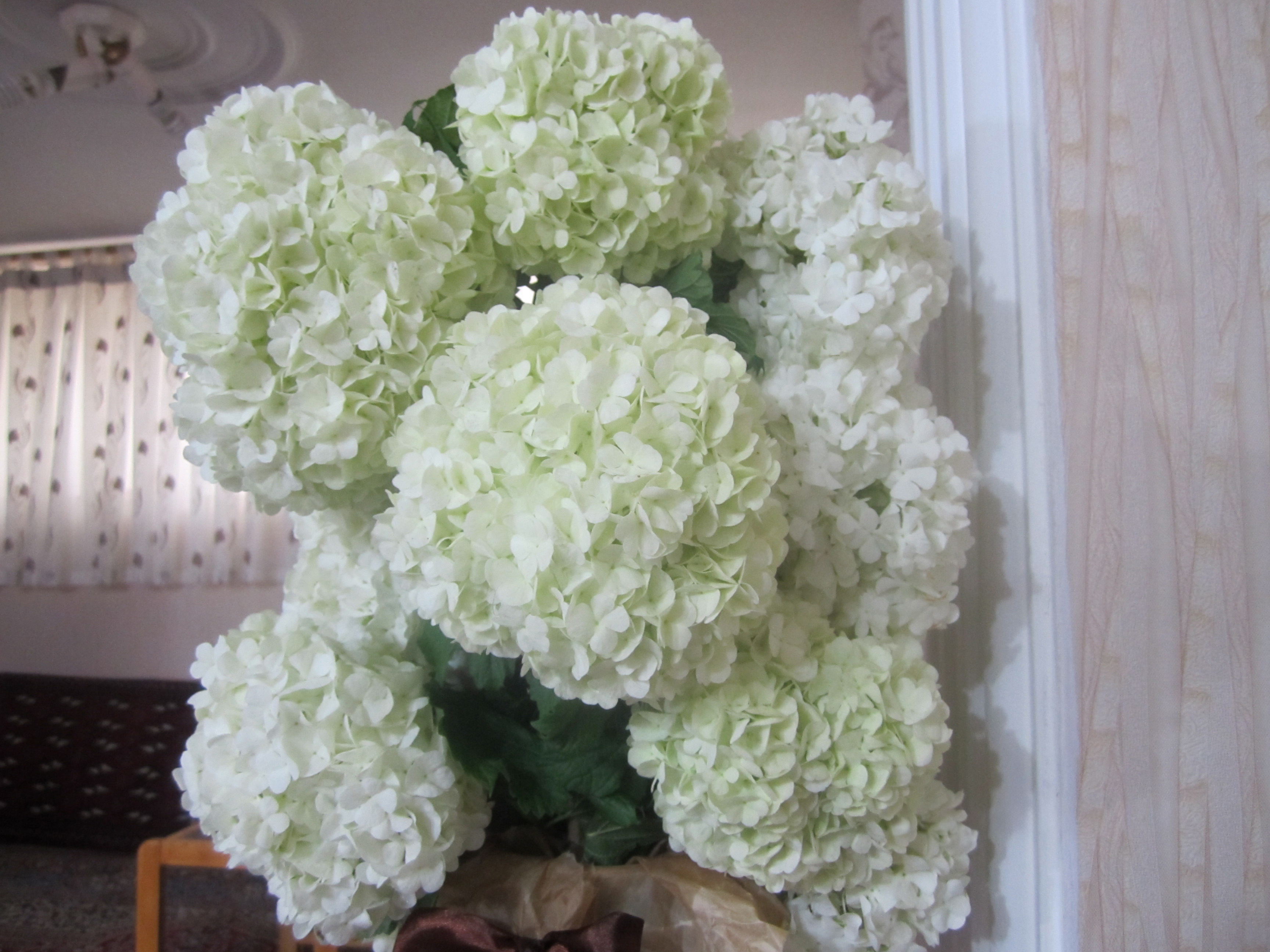 Viburnum opulus Sterilis